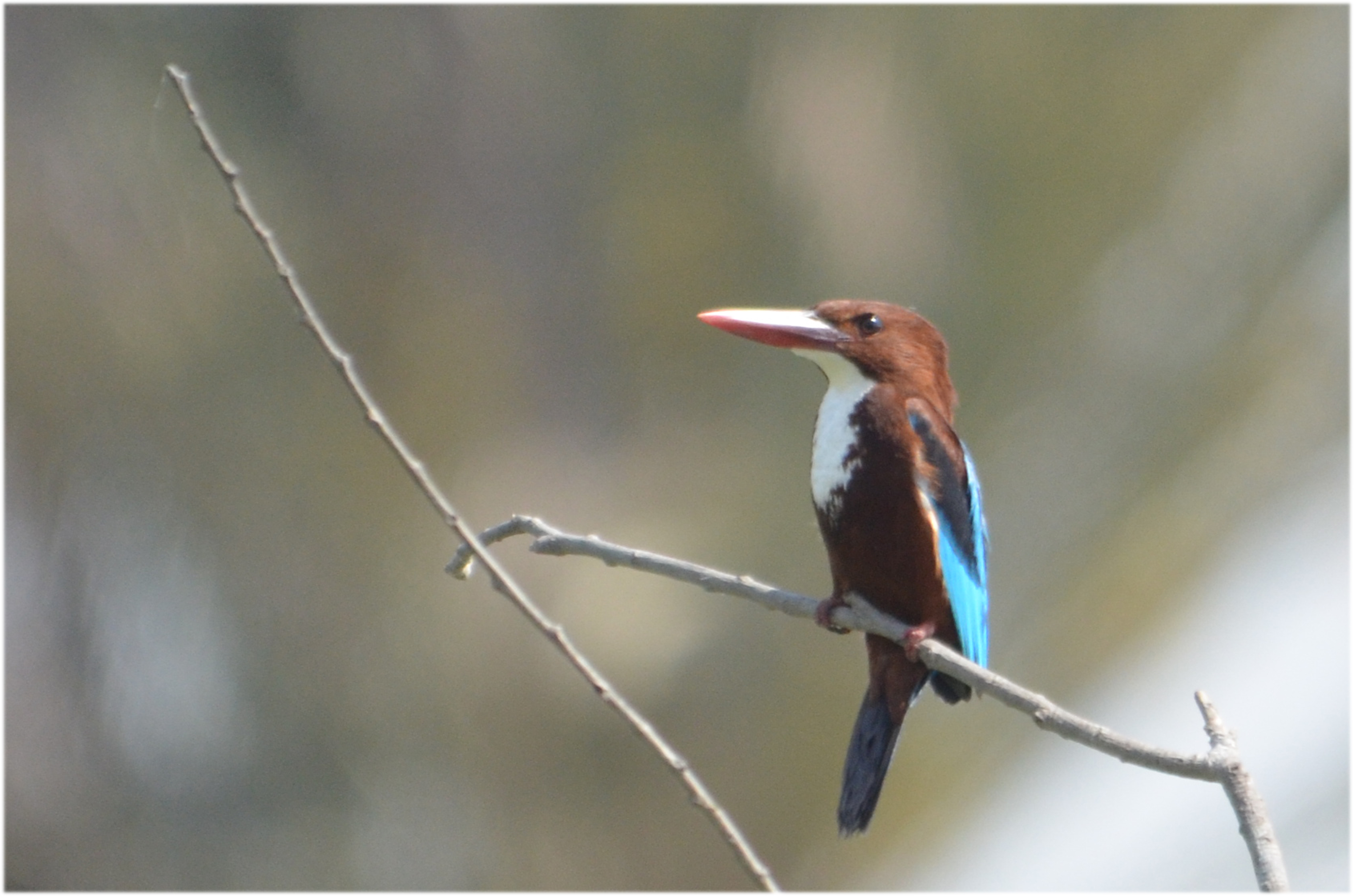 White-throated kingfisher